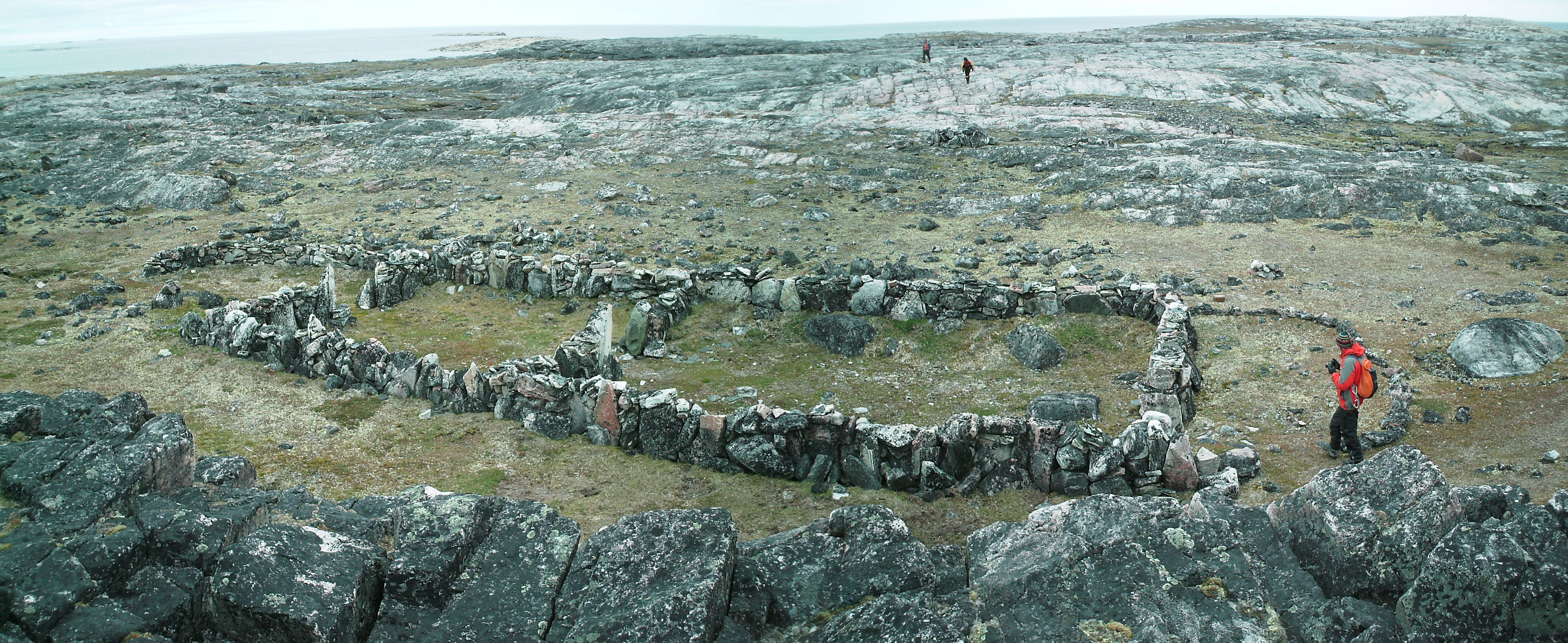 Historic site on Pamiok Island, Ungava Bay; several longhouse and other stone structures